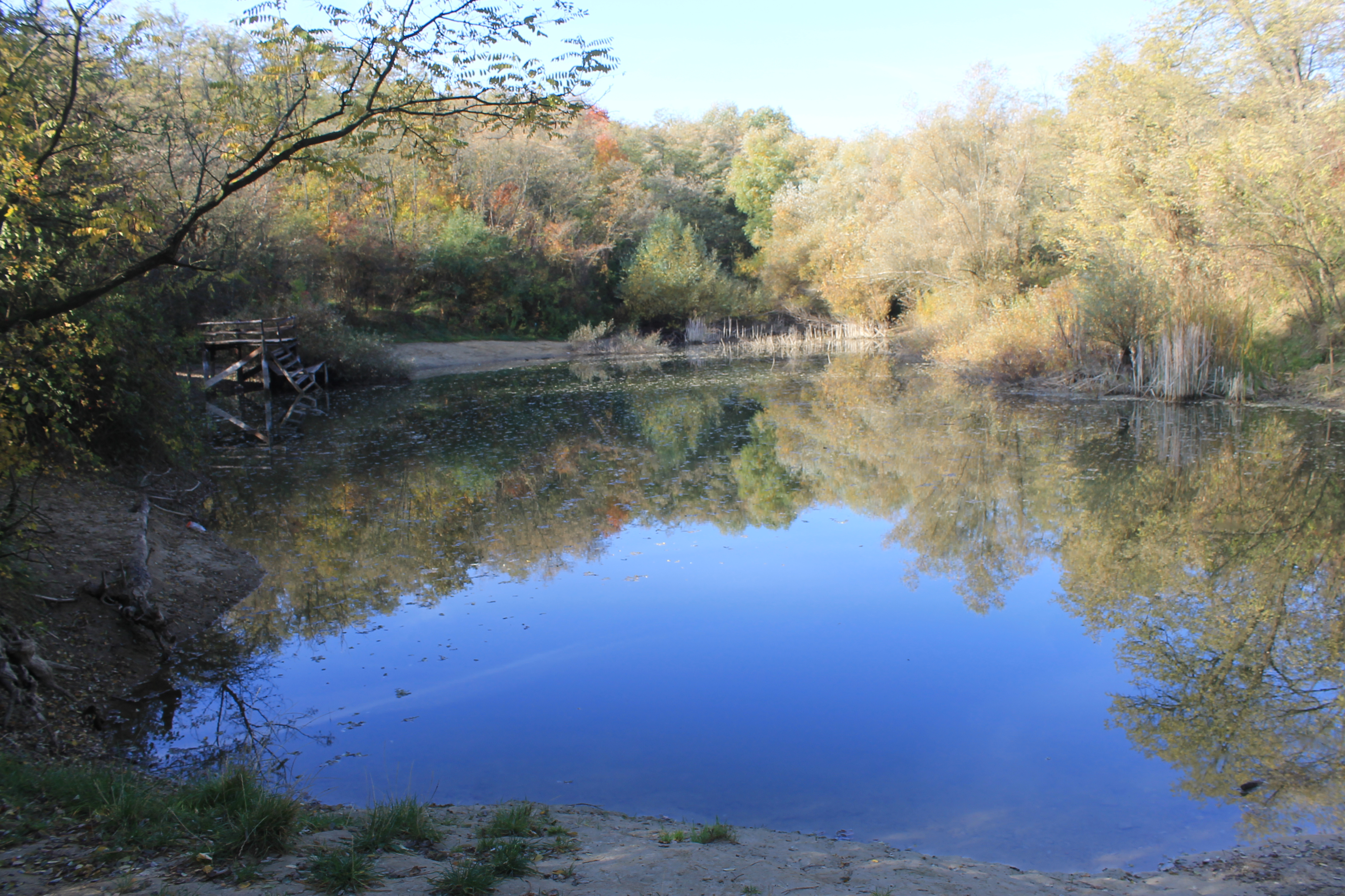 A Jági-tó ősszel